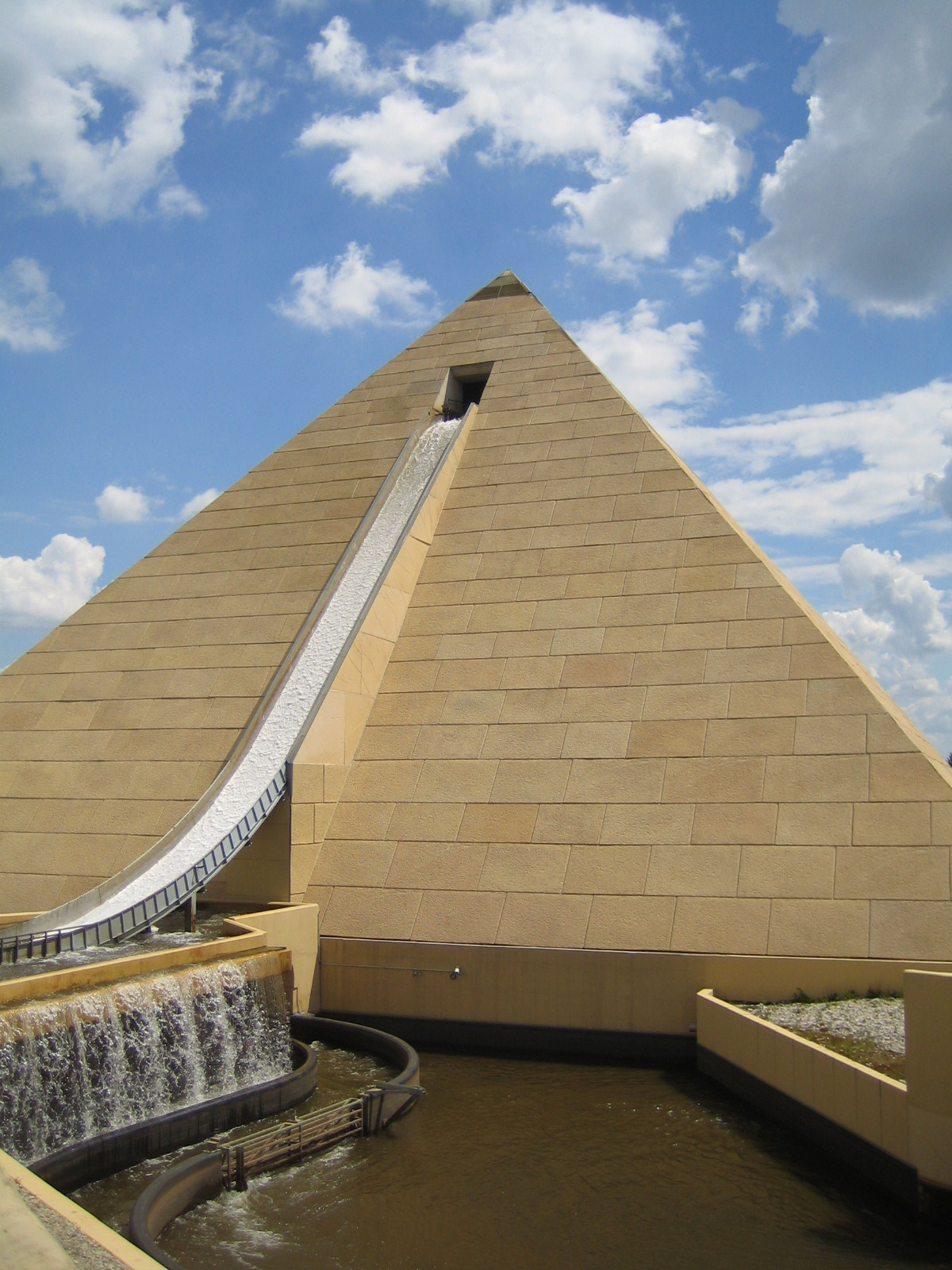 Belantis / Leipzig / Germany